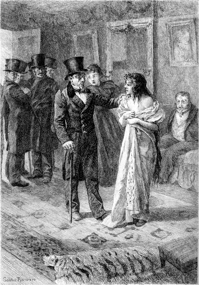 Title page of Honoré de Balzac's The Splendors and Miseries of Courtesans (1847).